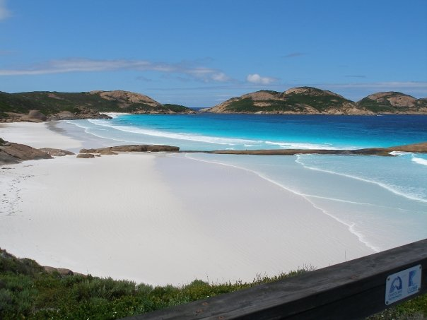 Lucky Bay looking South East from the Coastal Walk Trail in Cape Le Grand National Park (near Esperance WA)